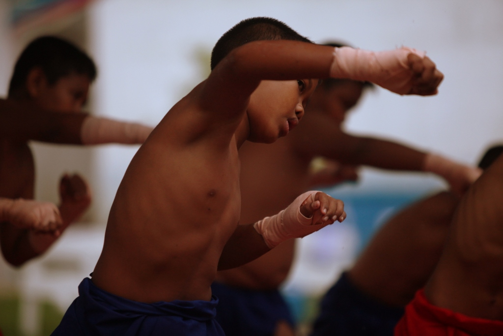 Local school children demonstrate Muay Thai during the Baan Pong Wua School dedication ceremony Feb. 15, 2011. The school was constructed during an engineering civic assistance project with U.S., Republic of Korea, and Royal Thai Marines during Exercise Cobra Gold 2011. Cobra Gold 2011 is a yearly multinational, joint training exercise designed to improve partner-nation interoperability.